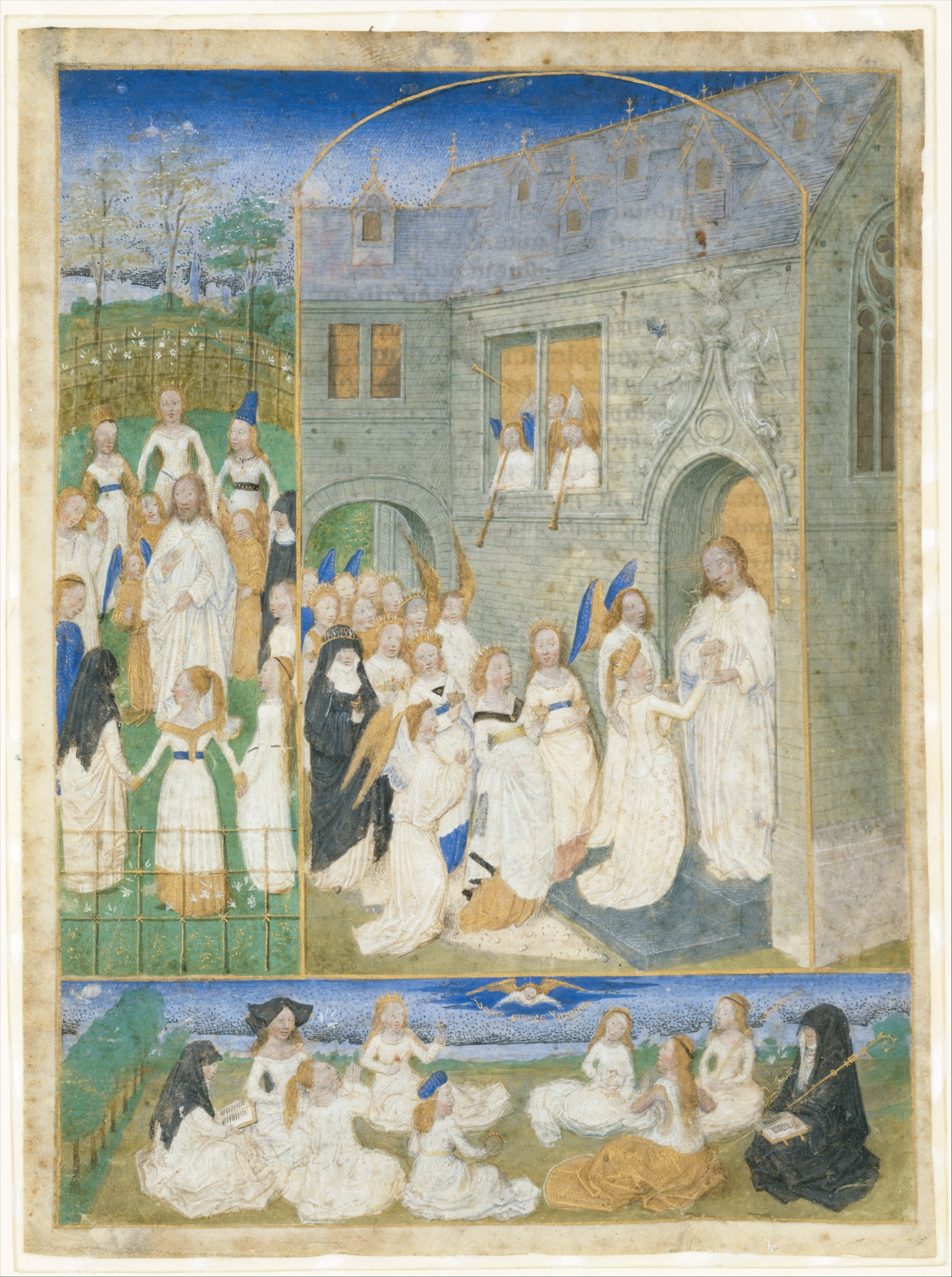 Leaf from a breviary; Manuscripts and Illuminations